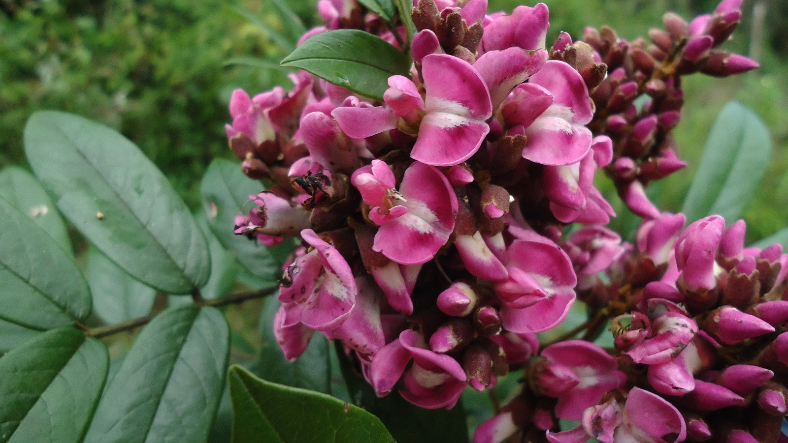 Andira fraxinifolia in Entre Rios, Bahia, Brazil